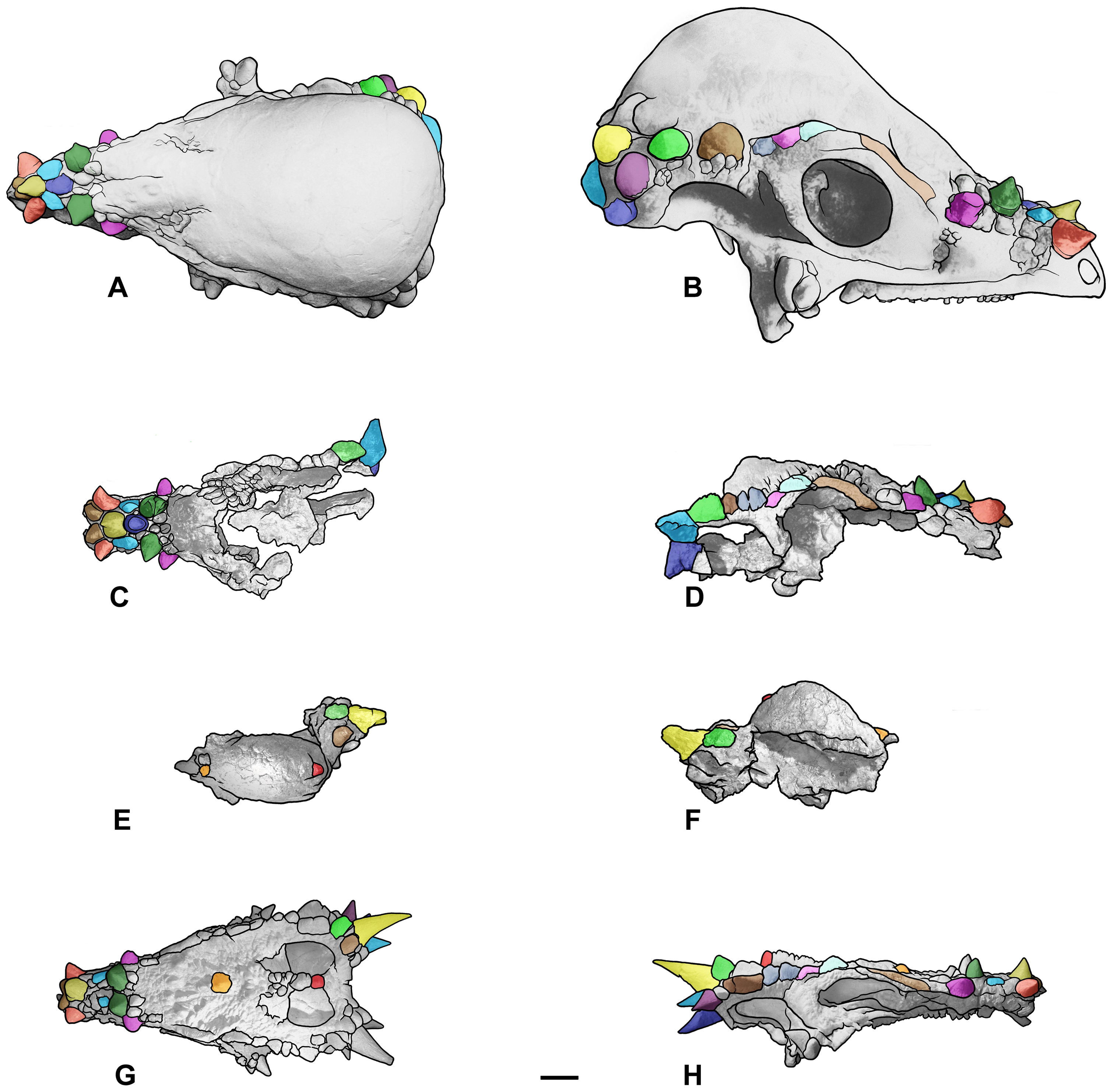 Cranial ontogenetic sequence of Pachycephalosaurus wyomingensis with morphological landmarks highlighted in color. Scale bar = 5 cm. The ontogenetically oldest adult, AMNH 1696, in (A) dorsal and (B) right lateral views. A younger adult, UCMP 556078 (cast) with inflation of the frontoparietal dome+lateral cranial elements and mature nasal and squamosal nodal ornamentation in (C) dorsal and (D) right lateral views. MPM 8111, a partial skull of "Stygimoloch" in (E) dorsal and (F) left lateral views (reversed) illustrates the high narrow frontoparietal dome, squamosal nodes and horns characteristic of the subadult growth stage. Landmarks on the dorsal skull of MPM 8111 in orange (anterior) and red (posterior) constrain the position of the dome. The youngest growth stage in this cranial ontogenetic series is "Dracorex", TCNI 2004.17.1 (cast) in (G) dorsal and (H) right lateral views. The position of the squamosal horns and nasal nodes are consistent in these four pachycephalosaurid skulls, which increase in overall length and size from youngest (G,H) to oldest (A,B).